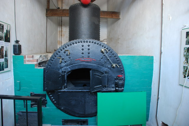 Gweithdai Glynllifon Workshops A boiler date 1854 by Thomas & De Winton of Caernarfon De_Winton